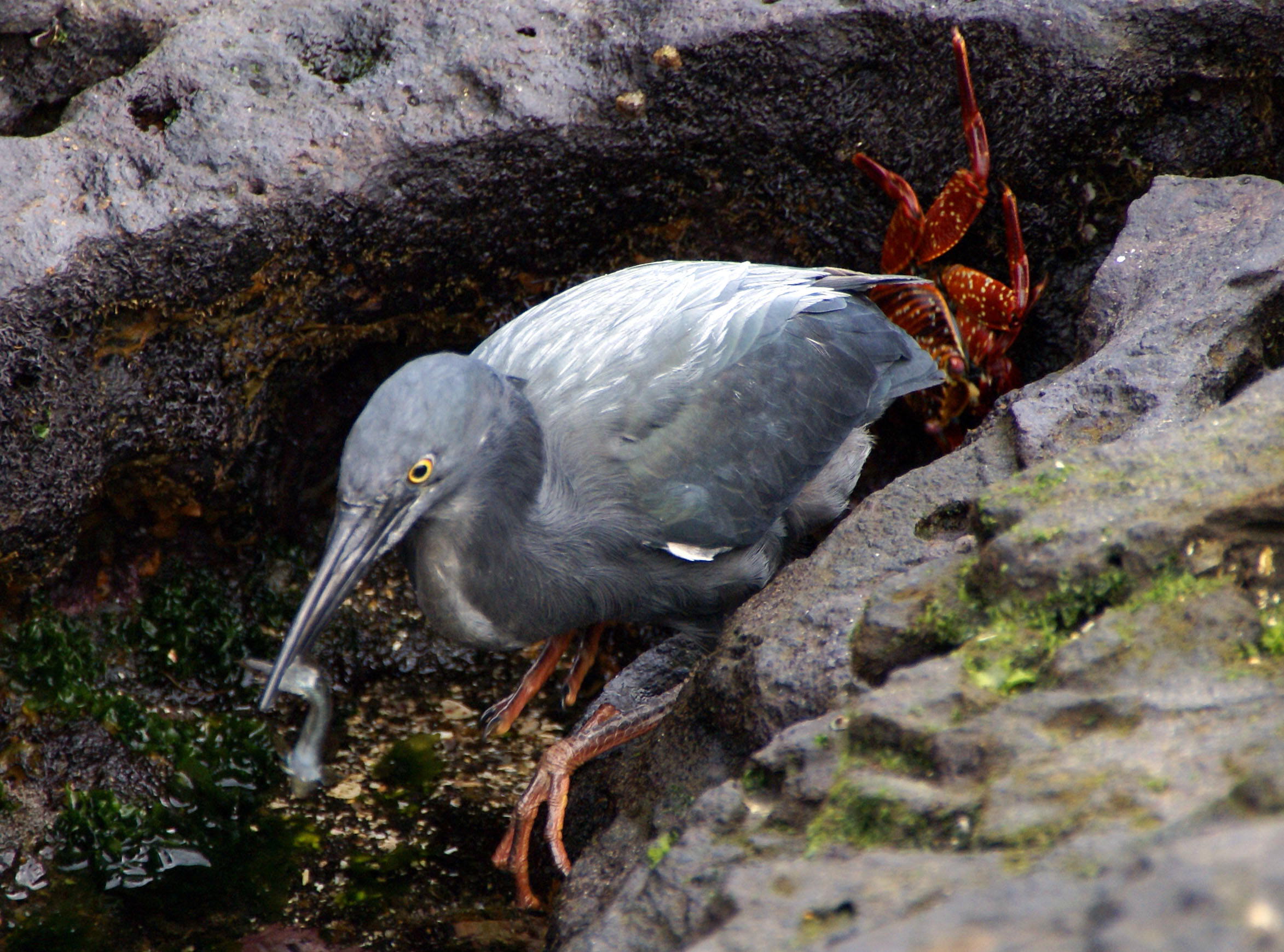 Lava Heron (Butorides sundevalli), Galapagos Islands.